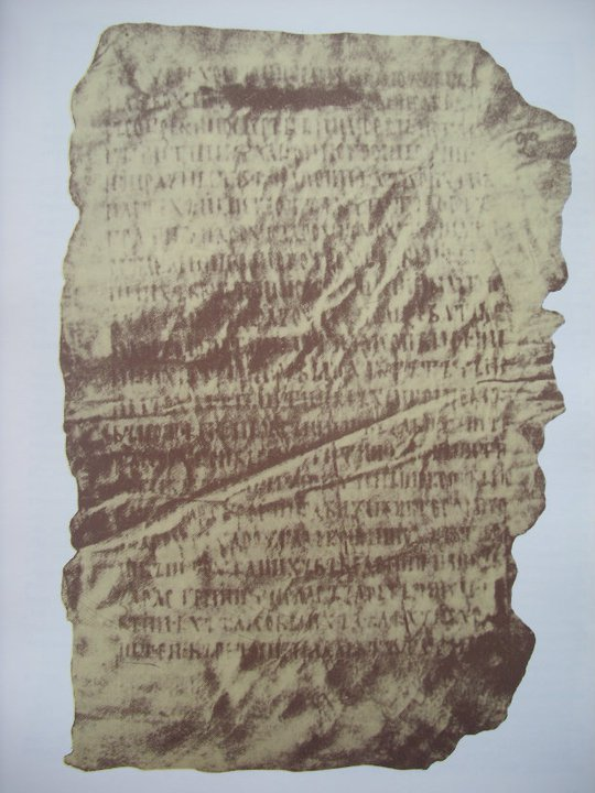 Zograf Lists